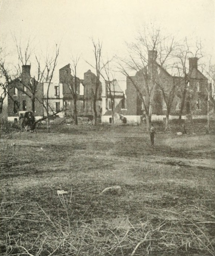 Chancellor House was the headquarters of General Joseph Hooker during the Battle of Chancellorsville, 1863. The general was knocked off his feet with a possible concussion when a Confederate artillery round smashed into a column that he was standing beside. Later, the general would take flight leaving the house to fall prey to heavy Confederate fire.